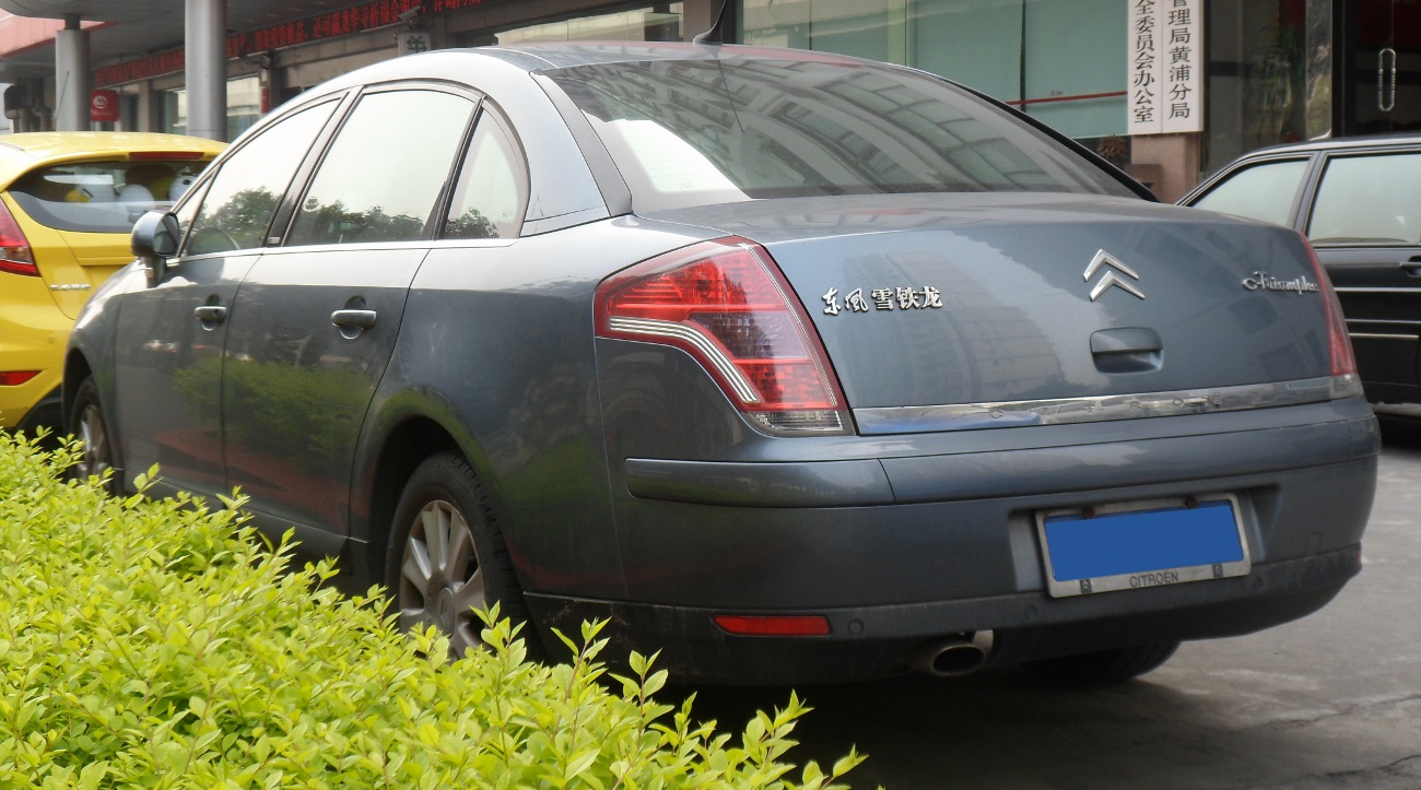 Citroën C-Triomphe photographed in Shanghai, China.